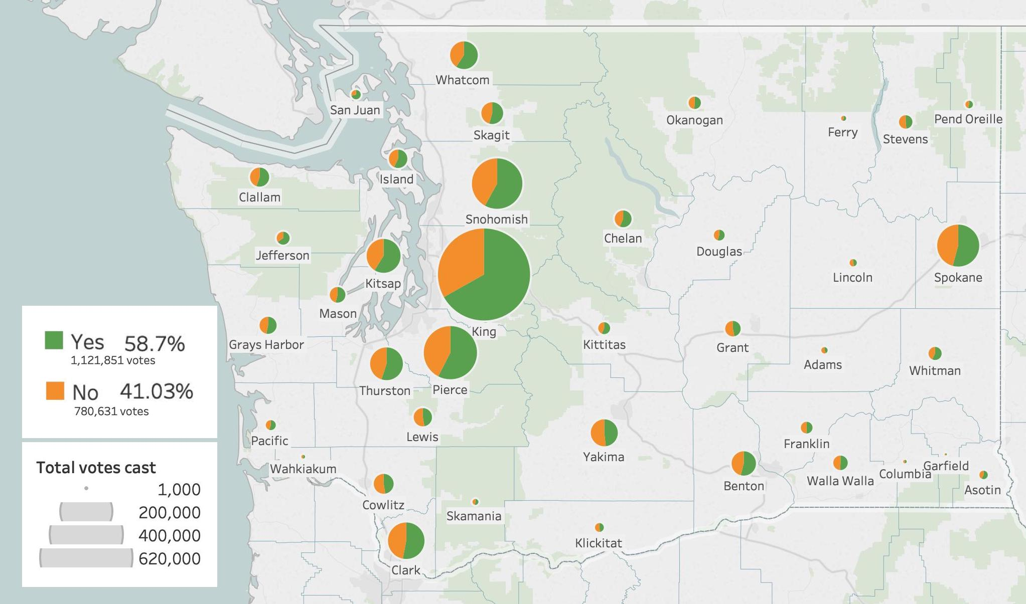 Washington Initiative 692 results by county, with number of votes shown by size, yes in green and no in orange. Source Elections Search Results November 1998 General. Washington Secretary of State, Elections Division.